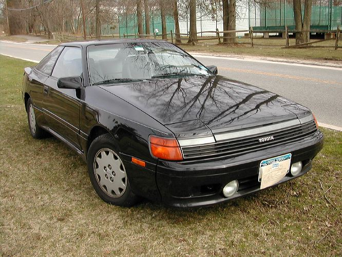 Mike Choi's Black 1988 ST165 Celica All-Trac Turbo.